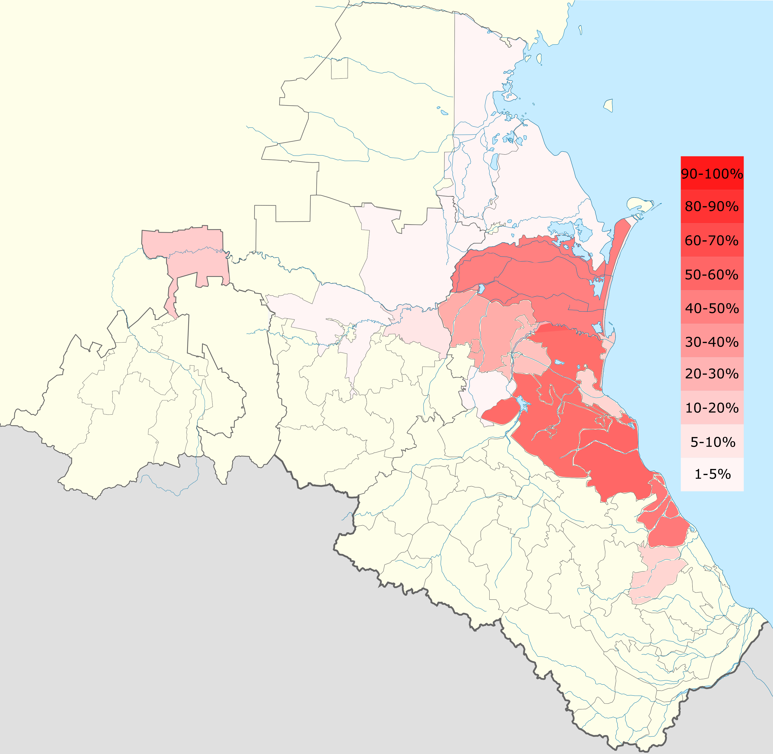 Distribution of the Kumyk population in the Native Caucasian regions